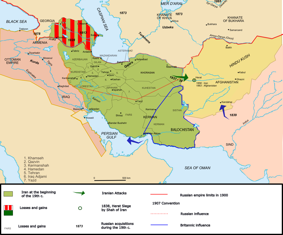 Date24 September 2006 (original upload date)SourceOwn workAuthorFabienkhan Licensing[edit]